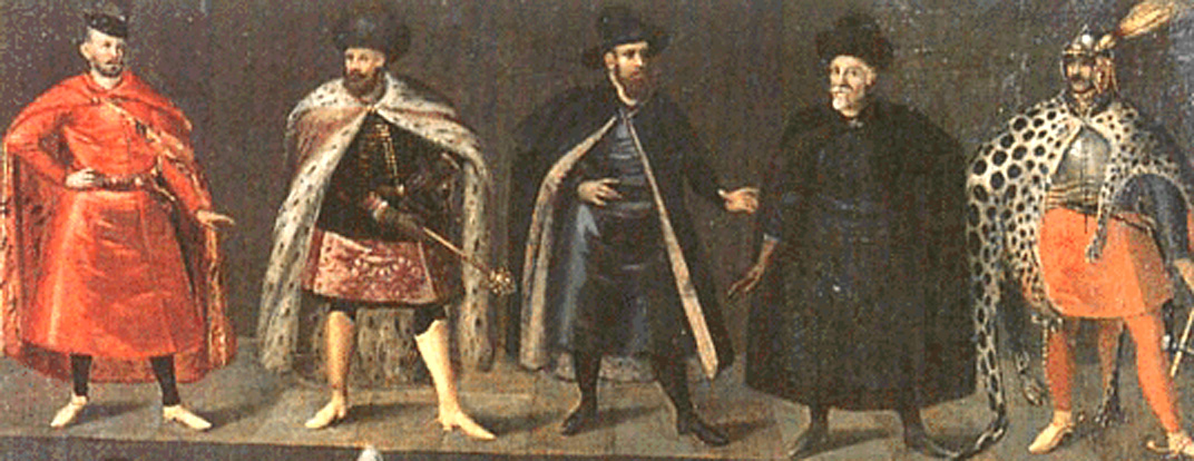 Costumes of Polish noblemen.